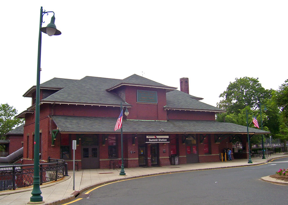 Photographed by Daniel Case 2006-07-04